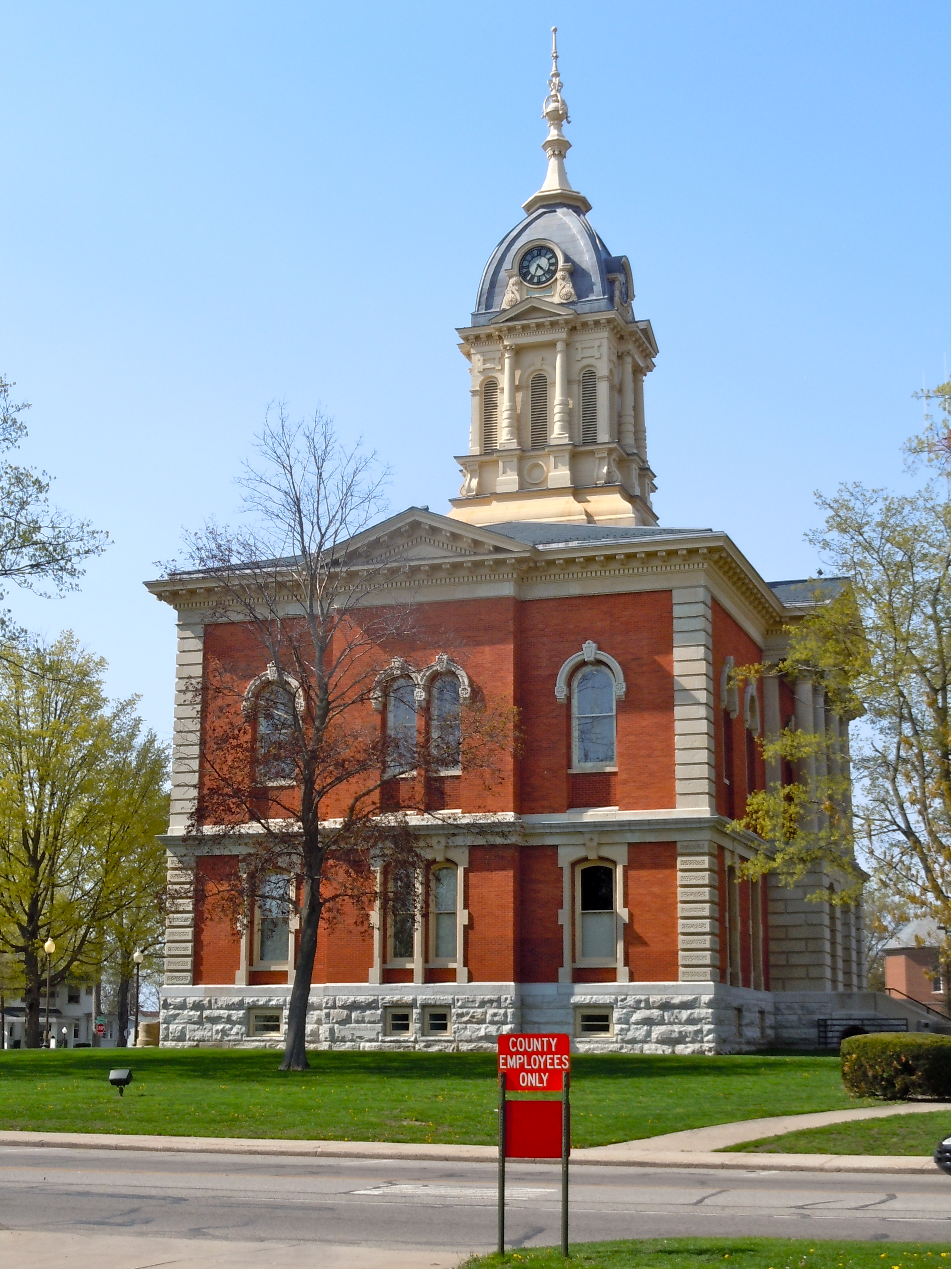 Marshall County Court House on the NRHP since June 30, 1983. At 117 W. Jefferson St., Plymouth, Indiana.